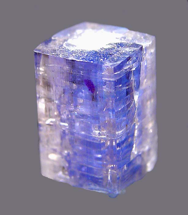 Carletonite Locality: Poudrette quarry (Demix quarry; Uni-Mix quarry; Desourdy quarry), Mont Saint-Hilaire, Rouville RCM, Montérégie, Québec, Canada (Locality at ) SUPER crystal, complete all around on all sides except bottom! My personal favorite of the thumbs here. 0.8 x 0.5 x 0.5 cm